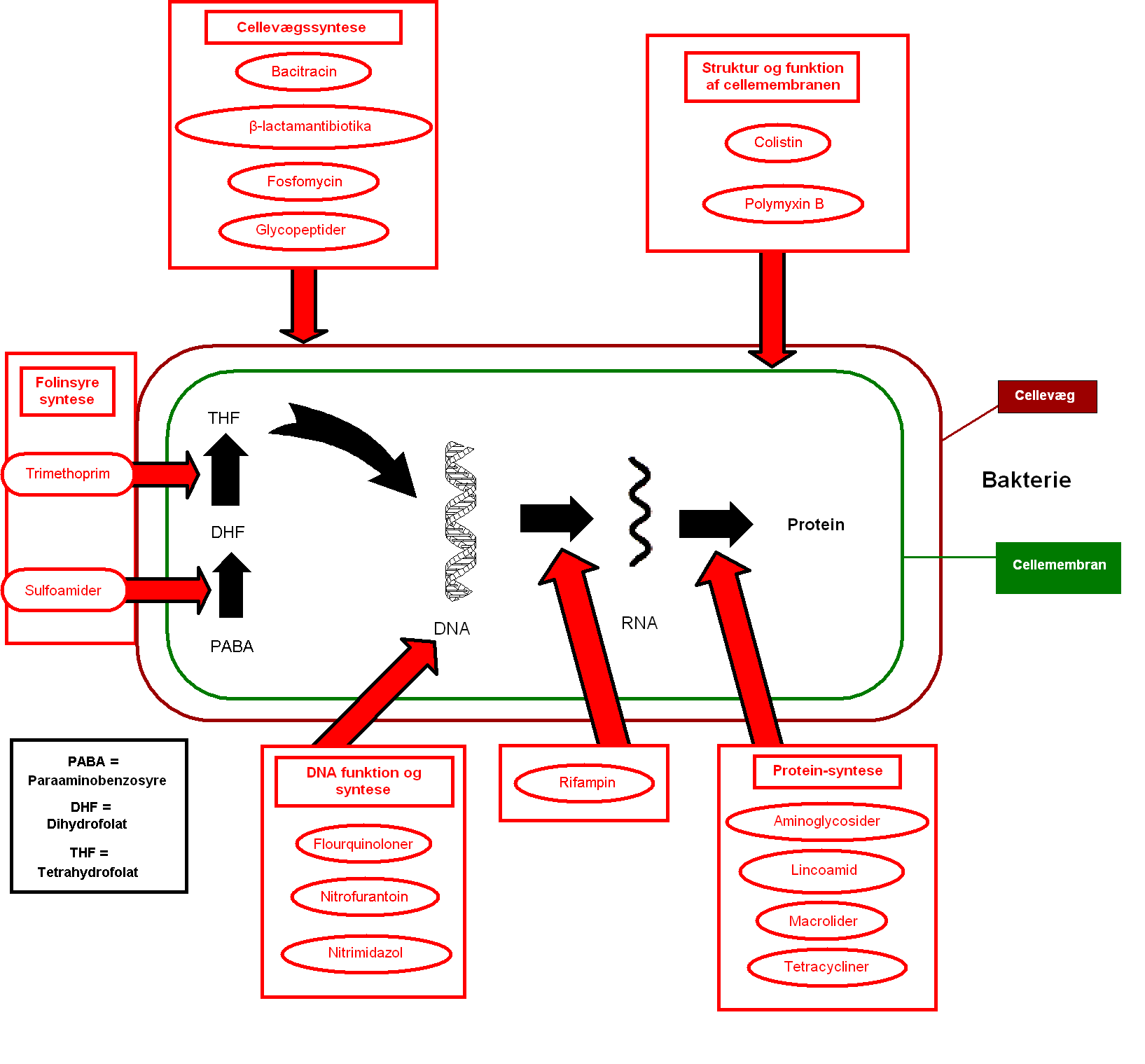 Author of original german version: User:FEERERO Author of translated english copy: User:J_Raghu Author of translated danish copy user:henjar